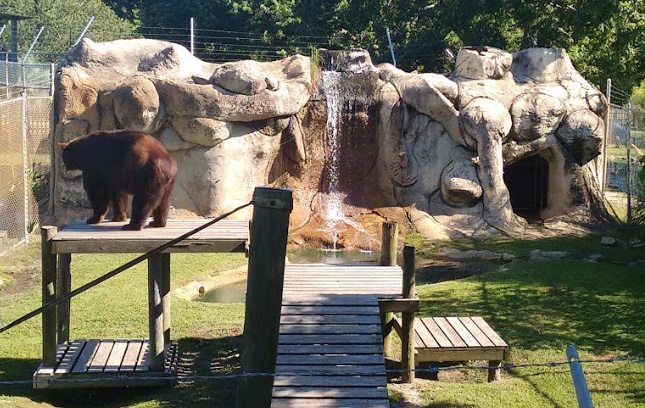 The bear habitat at the Alabama Gulf Coast Zoo in Gulf Shores, Alabama